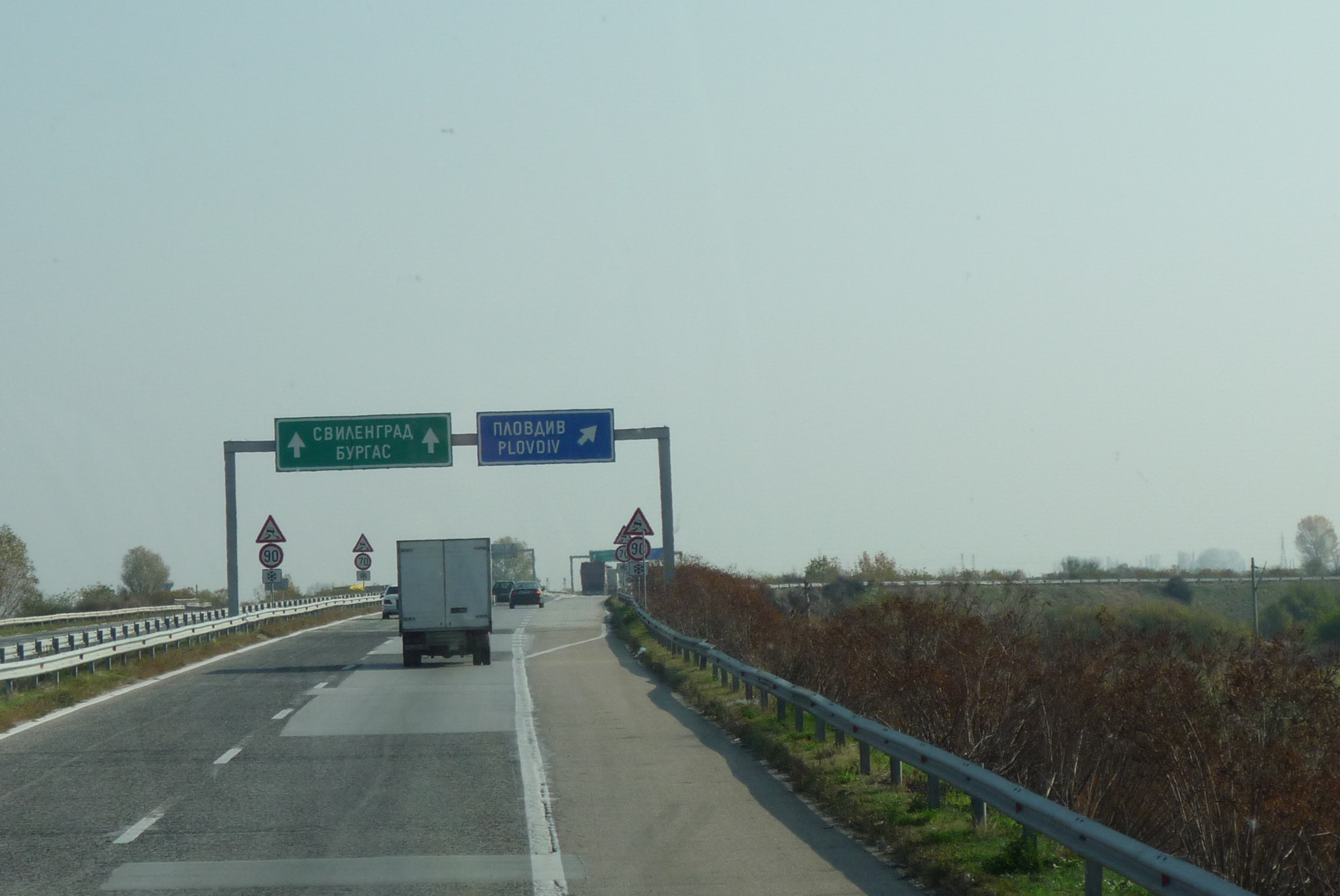 Freeway to Plovdiv